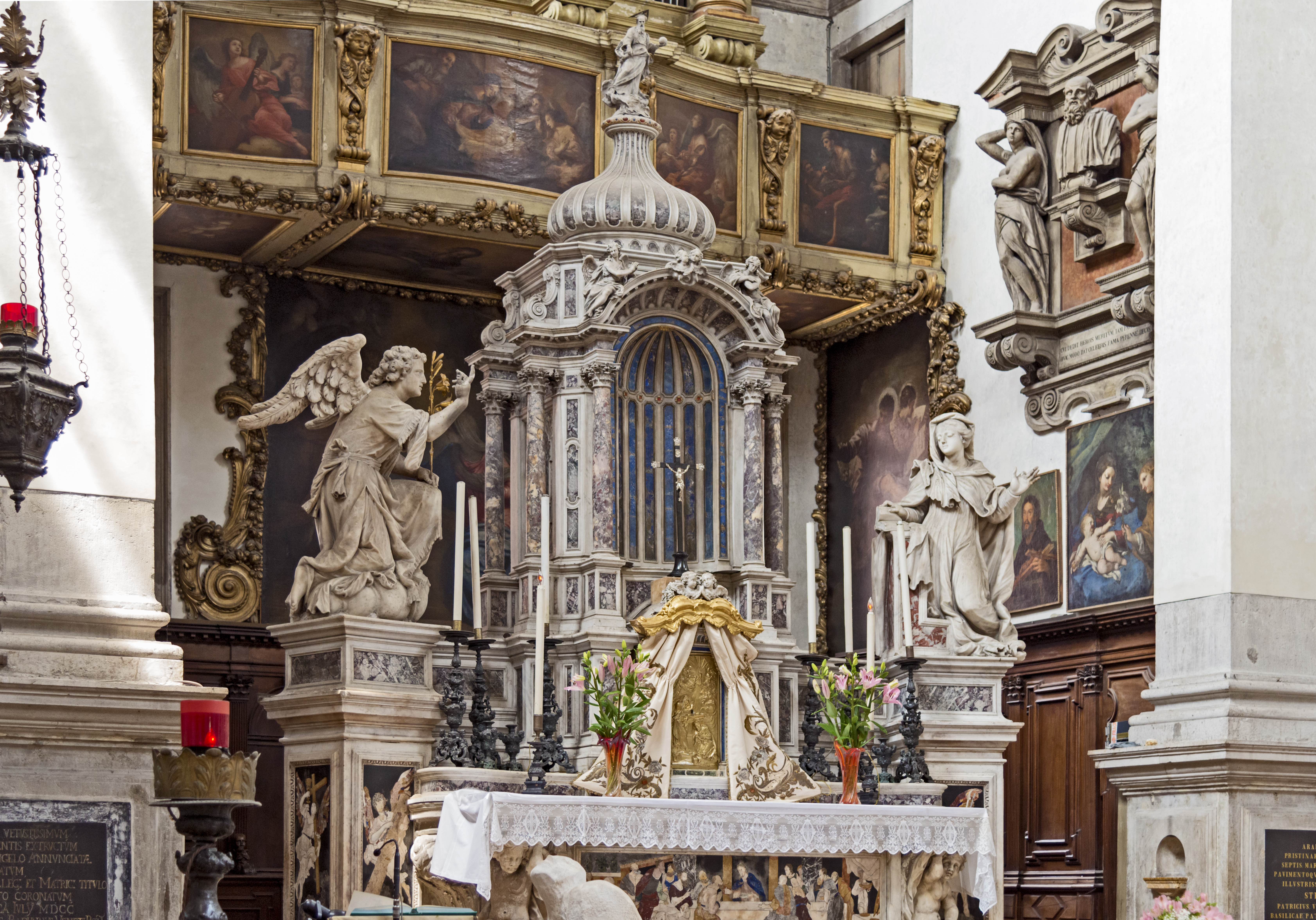 Church Santa Maria del Giglio in Venice. Altar : Annunciation by Enrico Merengo.